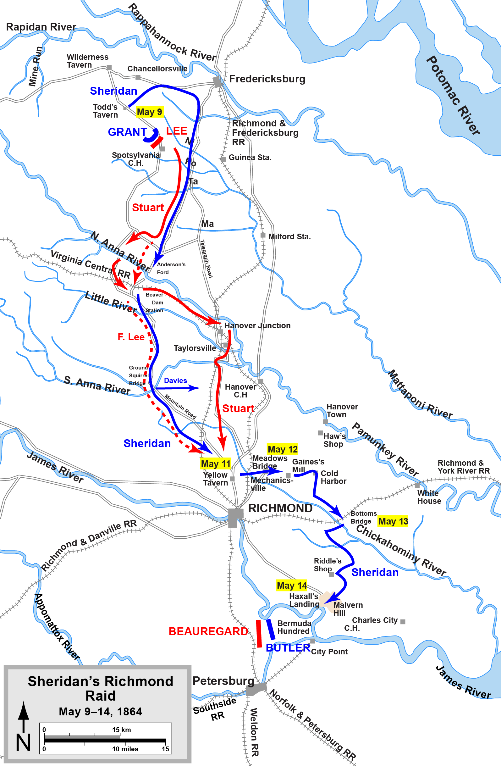 Map of Maj. Gen. Philip Sheridan's cavalry raid to Yellow Tavern and Richmond during the Overland Campaign of the American Civil War, drawn in Adobe Illustrator CS5 by Hal Jespersen. Graphic source file is available at